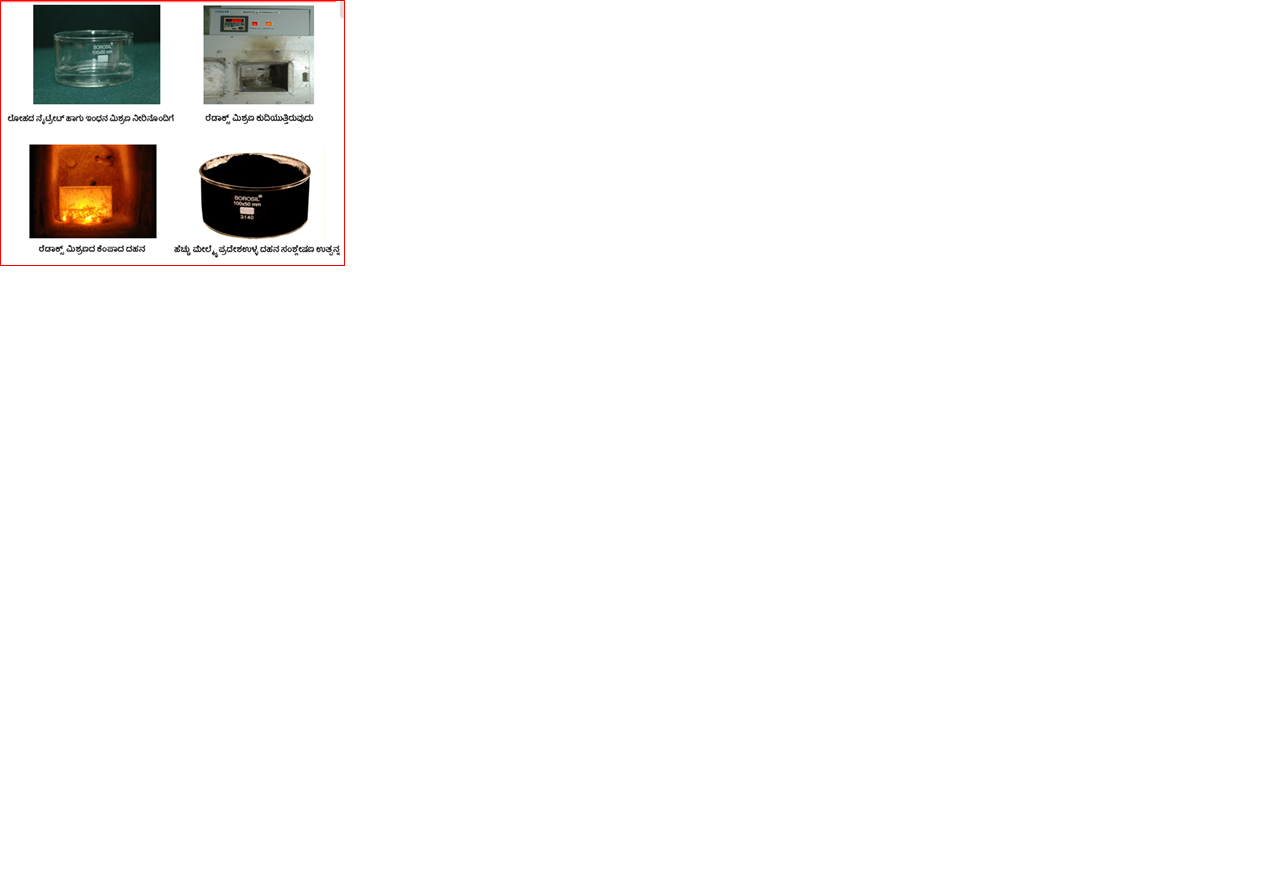 Solution combustion synthesis stages in Kannada